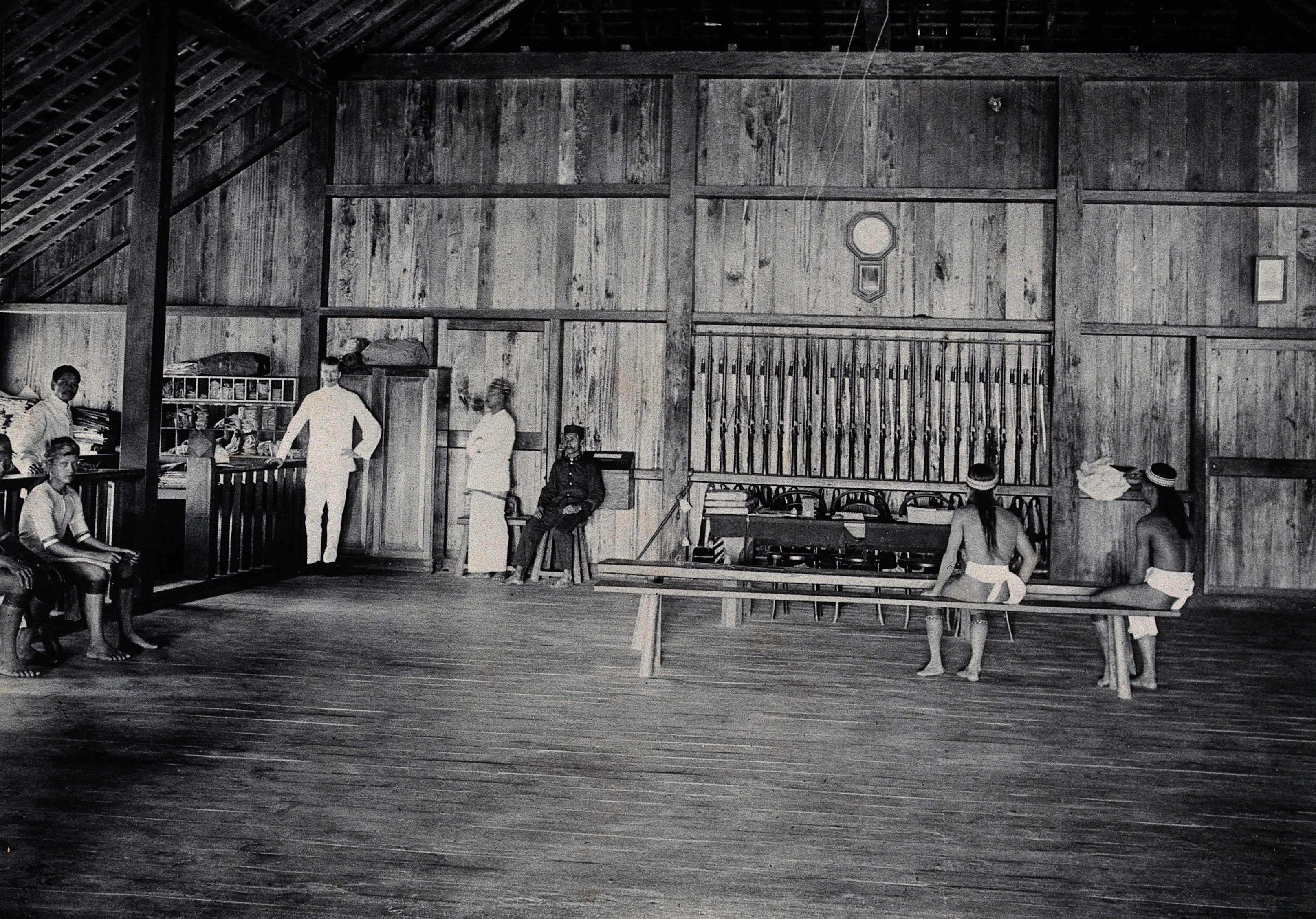 Sarawak: interior of the Baram Fort. Photograph. Iconographic Collections Keywords: Borneo; FORTIFICATION; Charles Hose; saraks; Anthropology; Malaysia; Ethnography; platinum photoprints